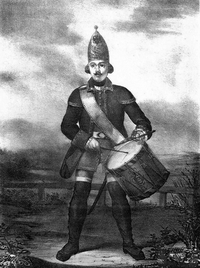 Grenadier drummer, 1756-1762.